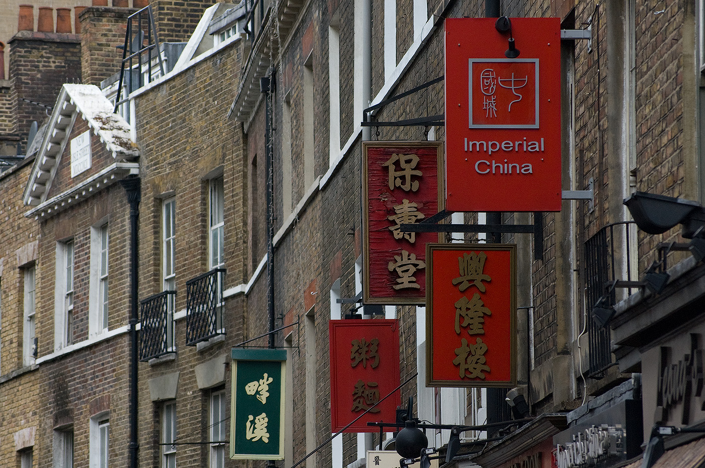 Shop signs in Chinatown in London, United Kingdom.